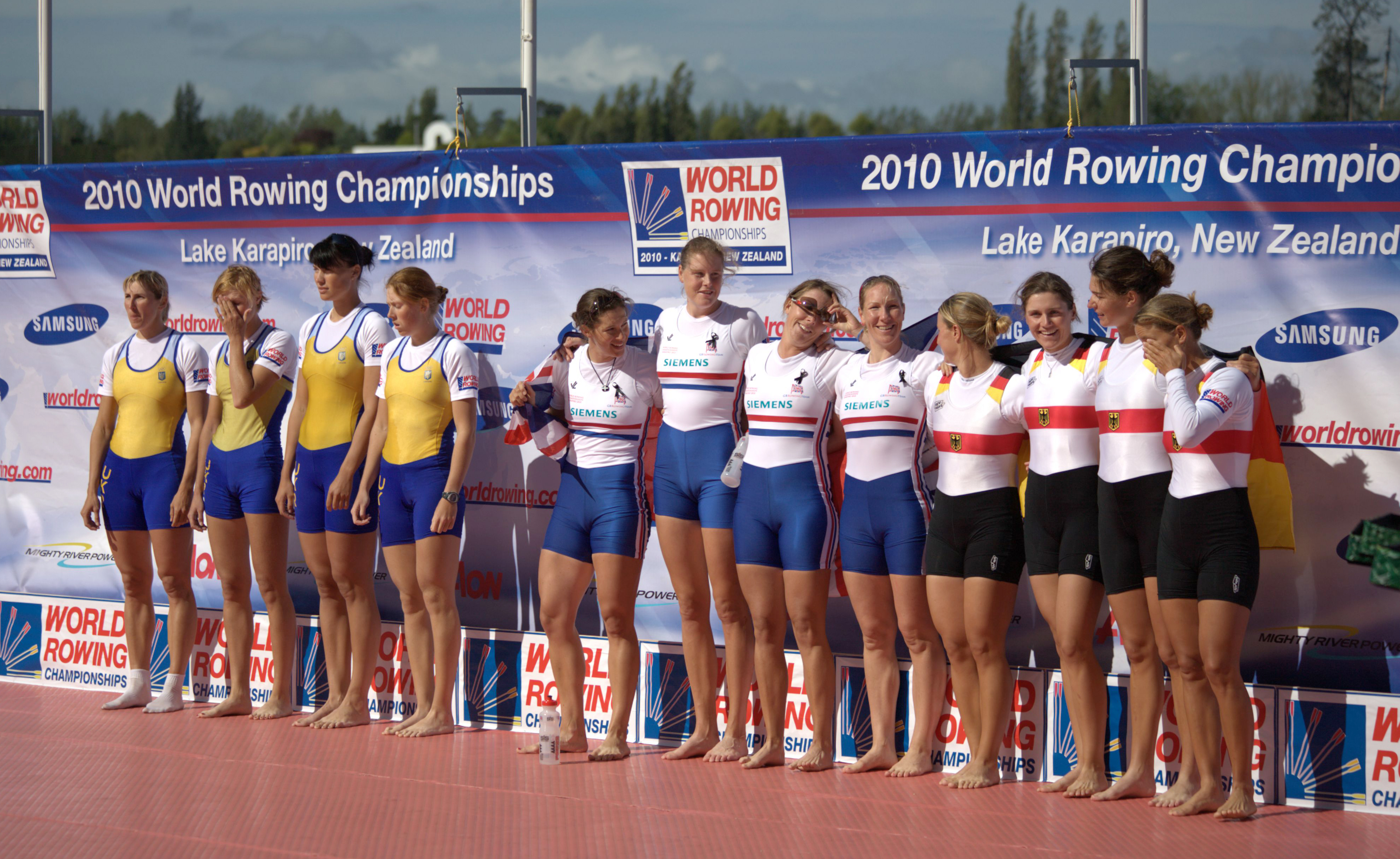 W4x medallists 2010 World Rowing Championships.